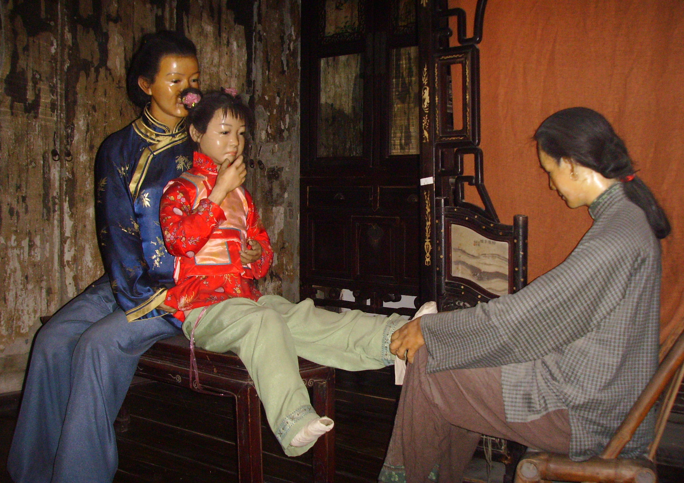 Wuzhen Xizha, Tongxiang, Zhejiang, P. R. of China: museum of foot binding, diorama: a girl is crying because her feet are being bound